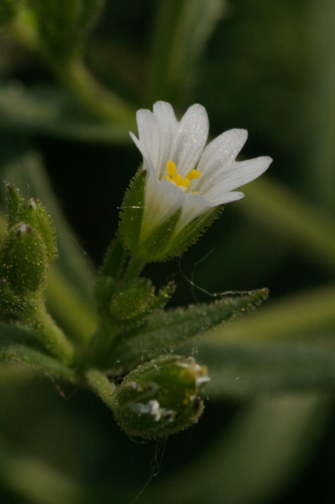 Cerastium dubium. Origin of image: Slovakia, Slanisko Kamenín, nadmořská výška 120 m